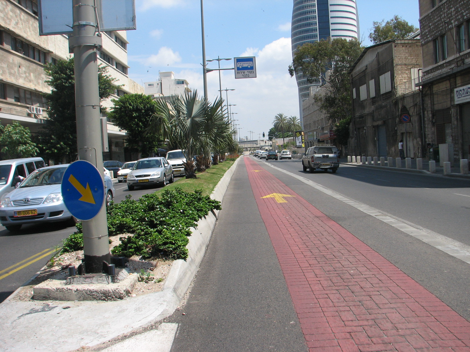 Ha'Atzma'ut Street at the corner of Eliyahu HaNavi Street in the Haifa CBD, looking east.